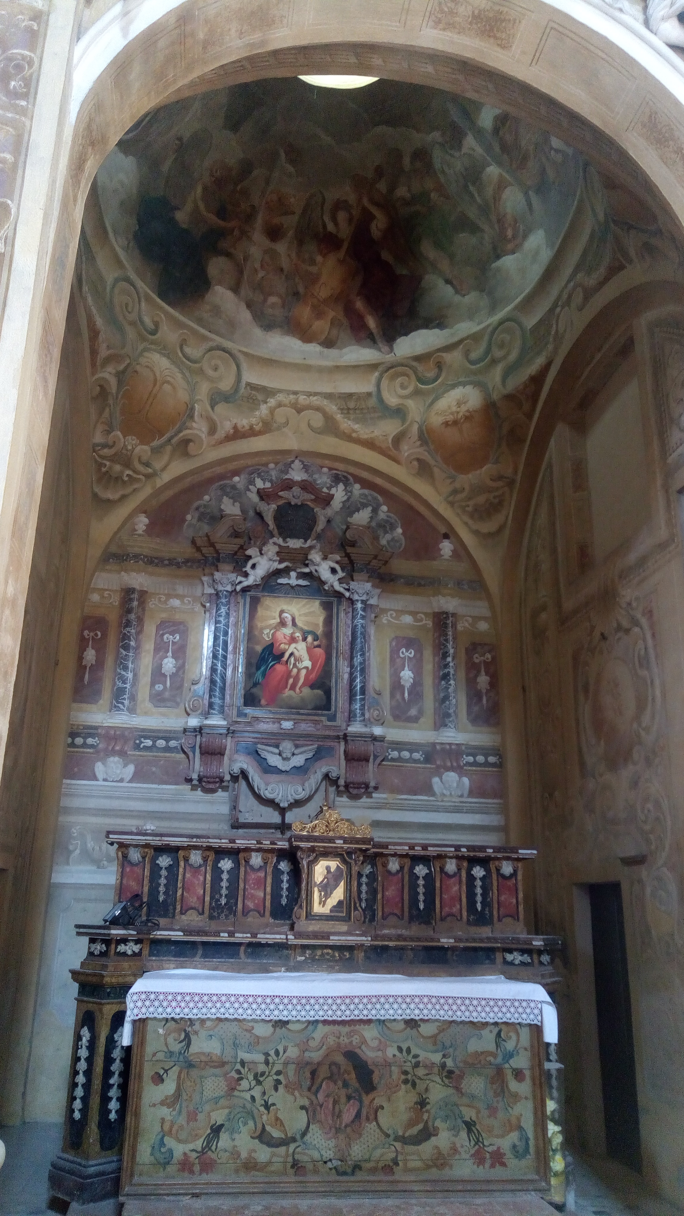 Serraglio Church